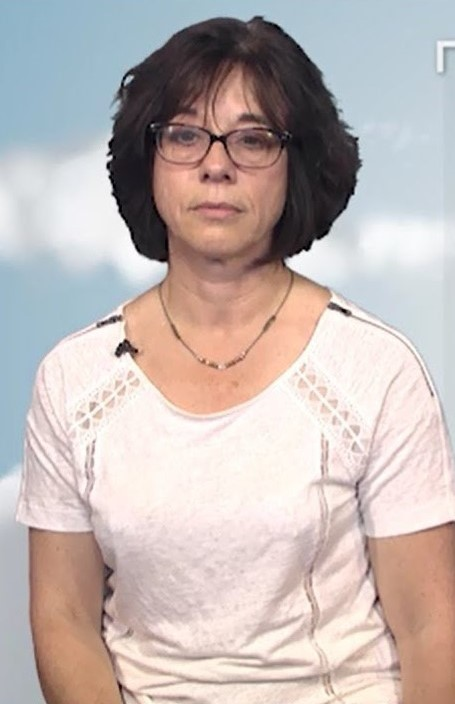 French climate scientist Pascale Braconnot talks about climate models for UVED, Université Virtuelle Environnement Et Développement Durable.